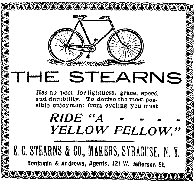 Stearns Cycle Company - Yellow Fellow - 1895